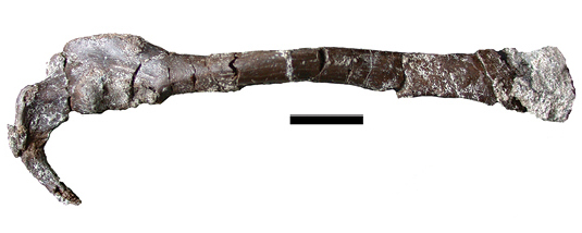 Pneumatoraptor fodori (Theropoda, Paraves), left scapulocoracoid (holotype, MTM V 2008.38.1.) in lateral view.